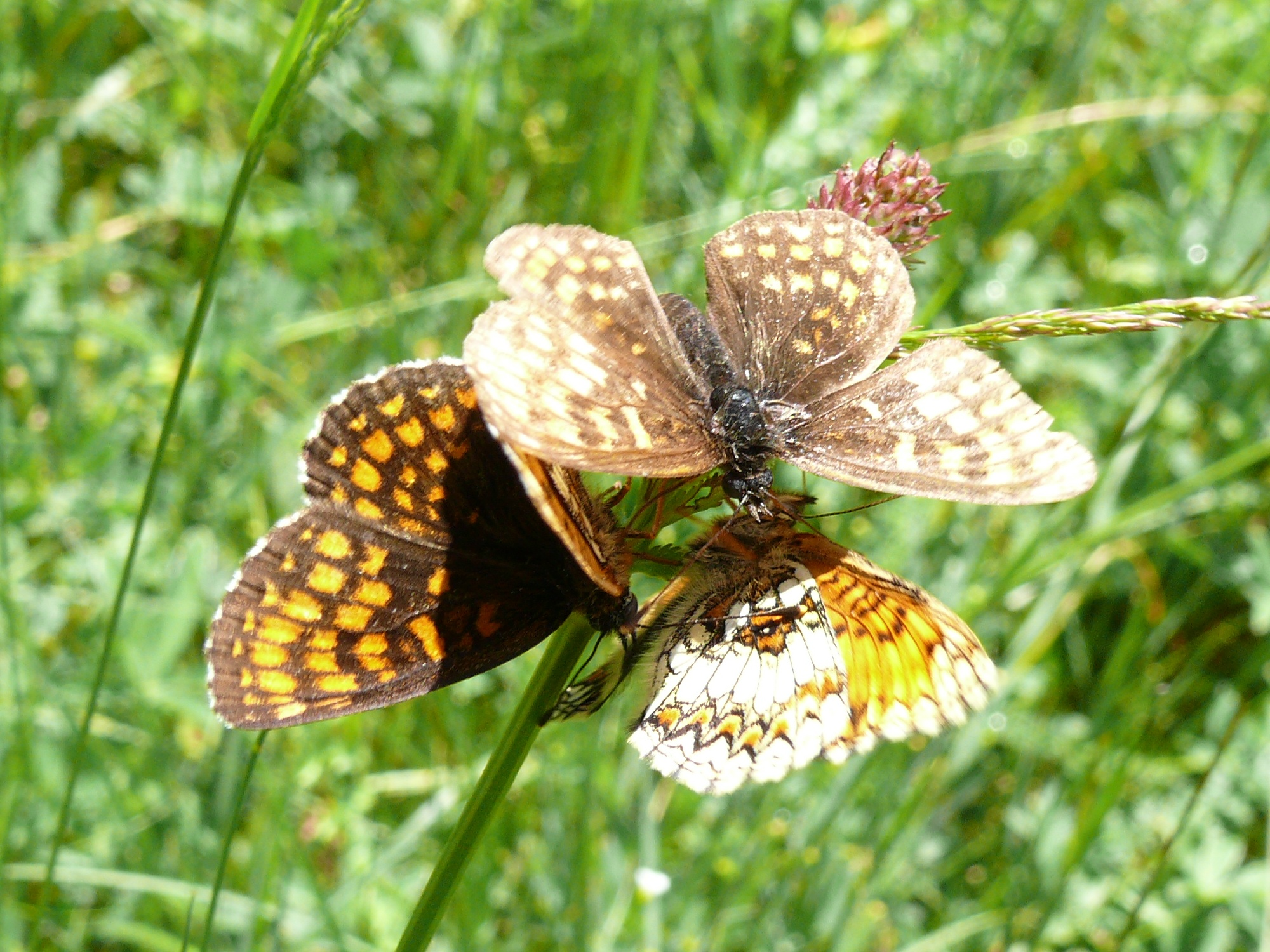 Courtship of three Heath Fritillary, photographed near Lake Starnberg, Bavaria, Germany